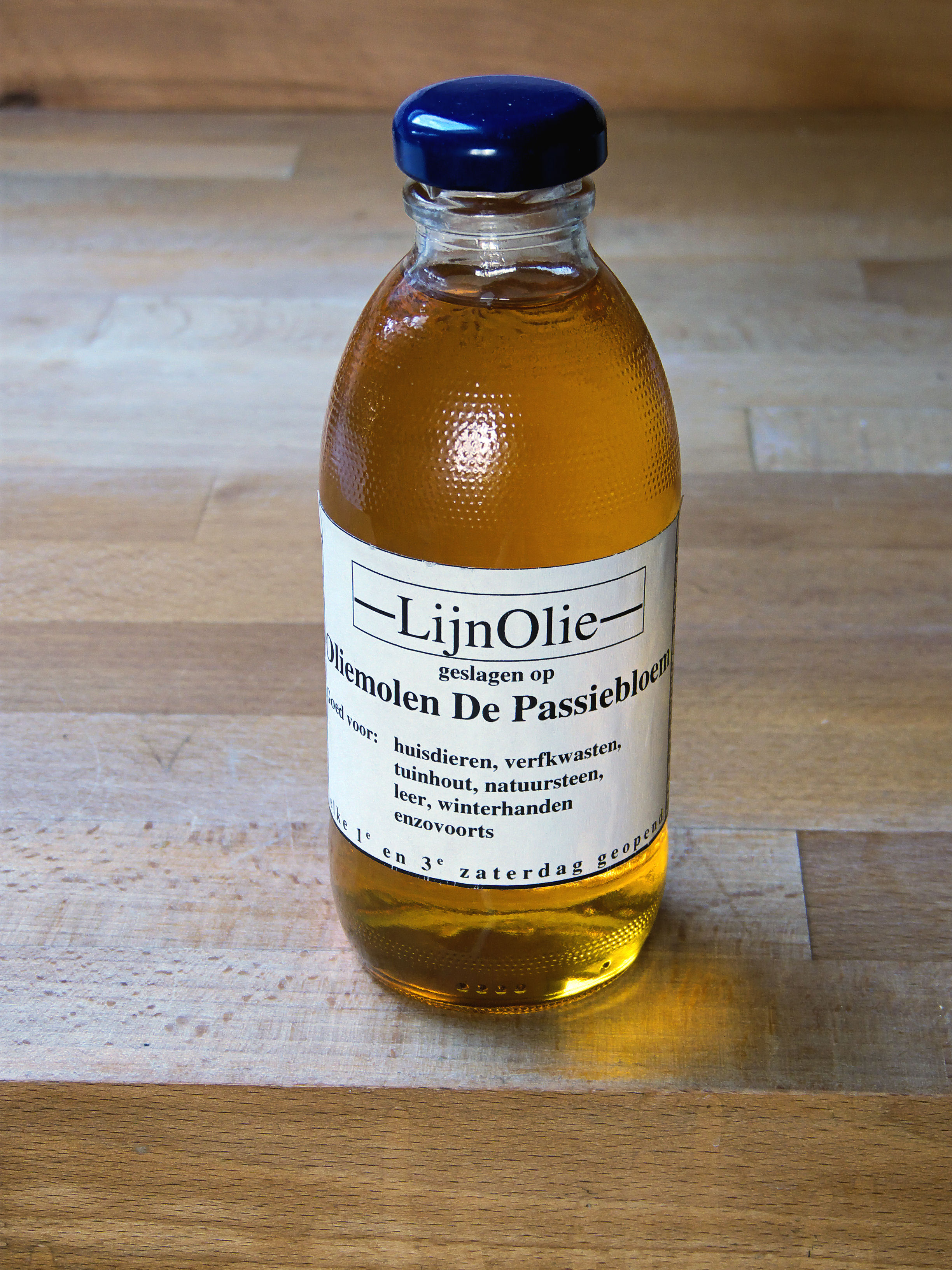 Linseed oil